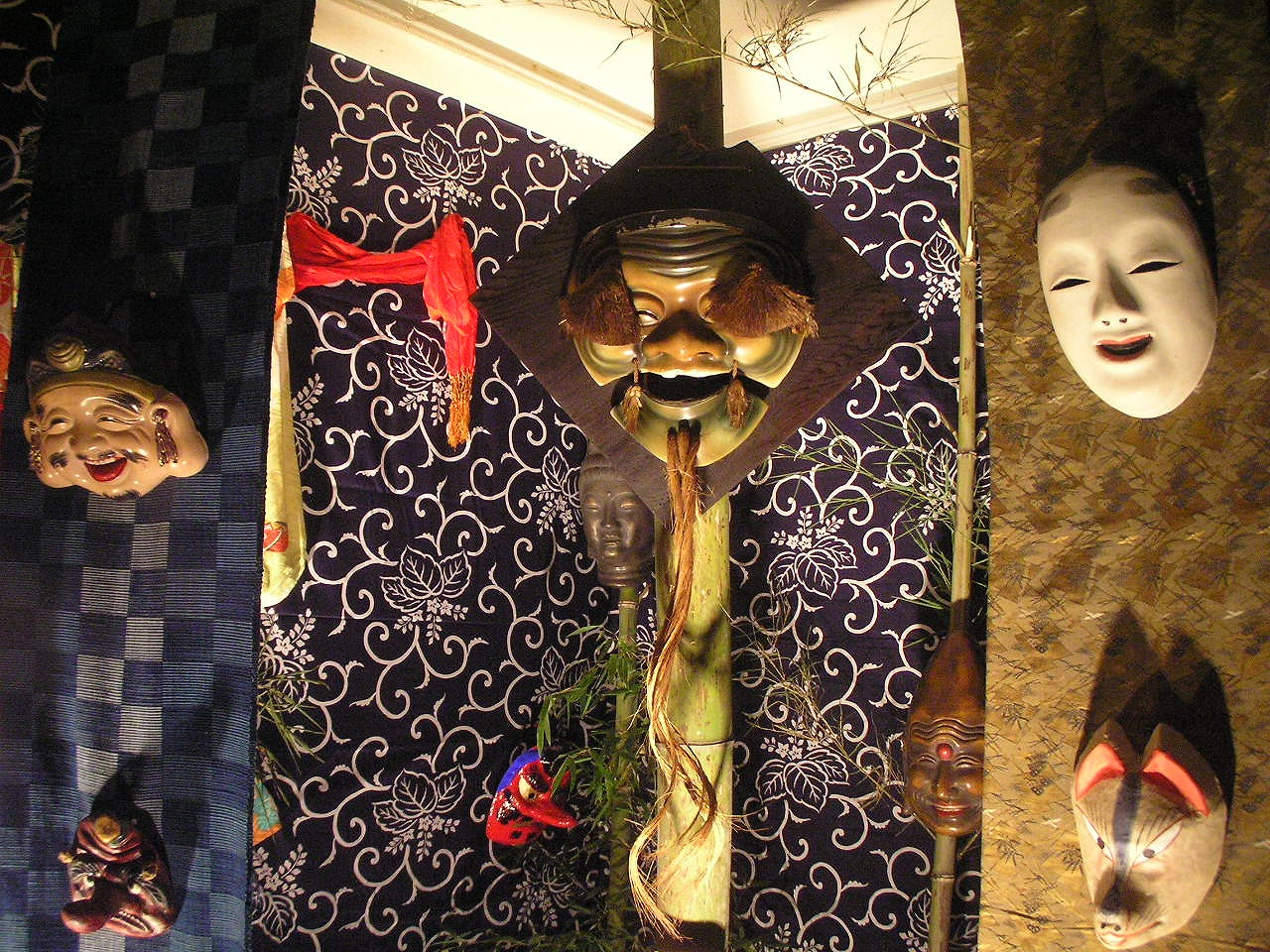 The Japanese Mask